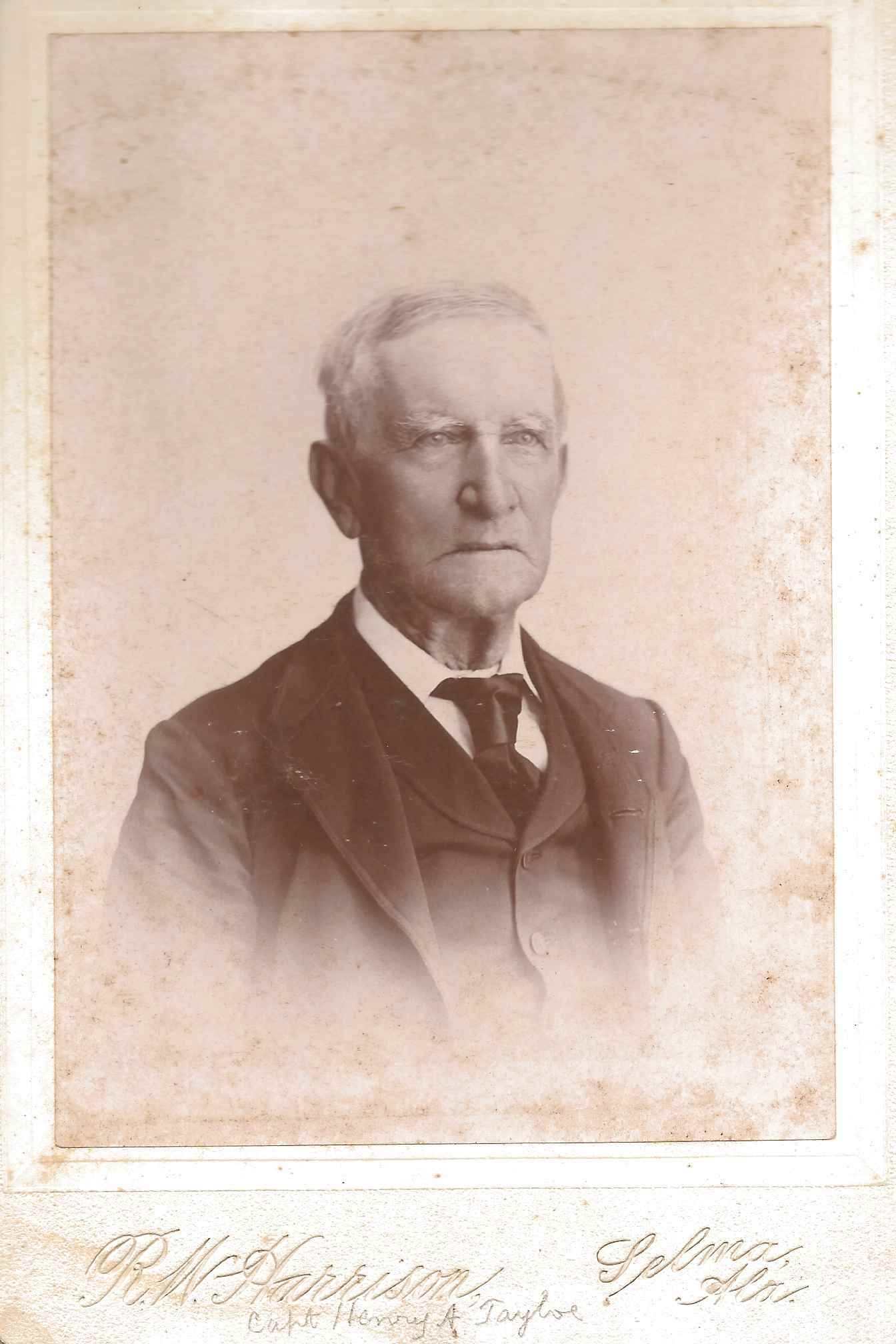 Photograph taken by unknown